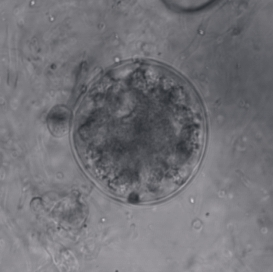 Spizellomycete March AD 2.0. Culture: Dr. David Midgley. 400x magnification